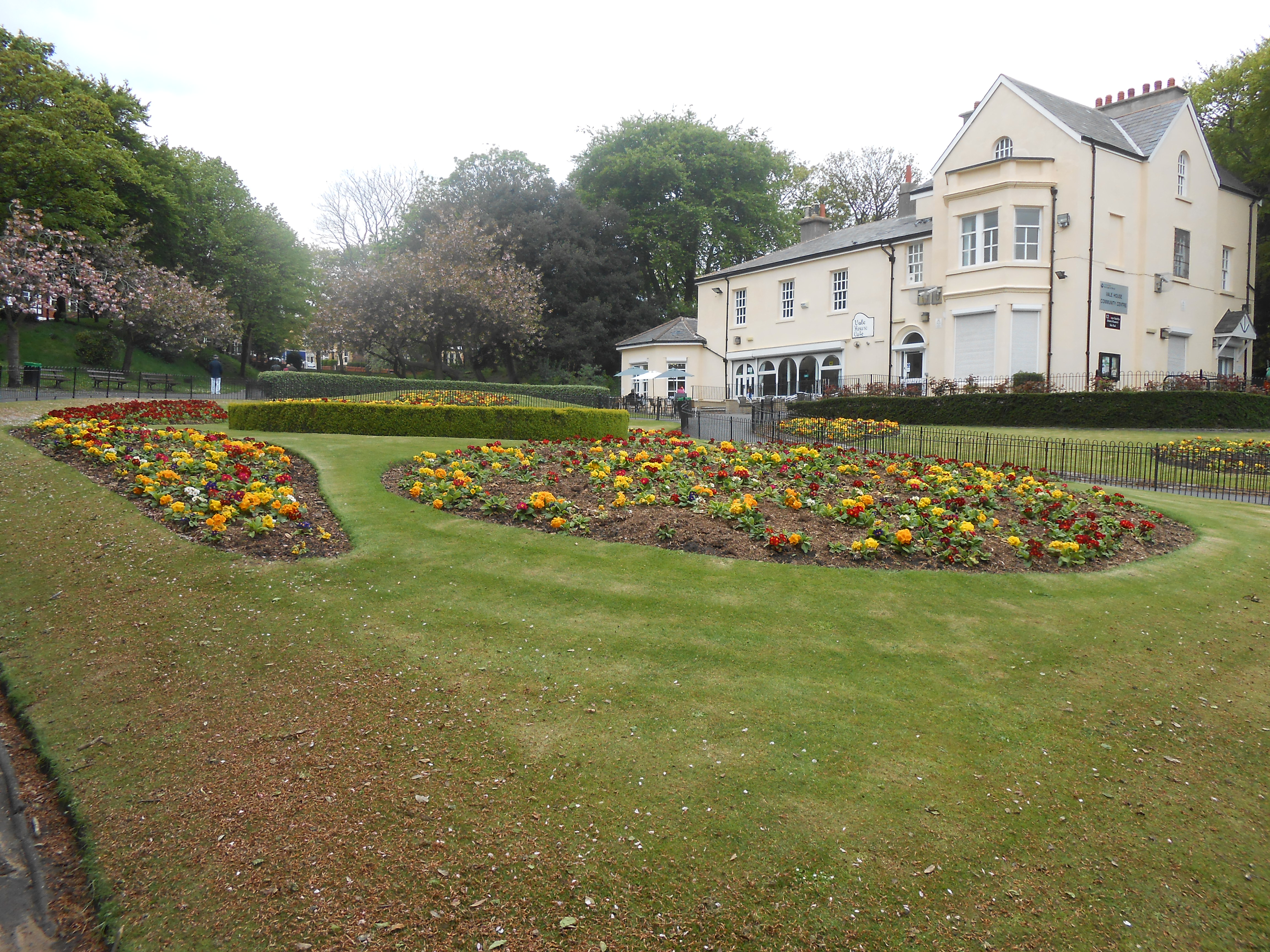 Photo taken at Vale Park, Wallasey, Wirral, England.